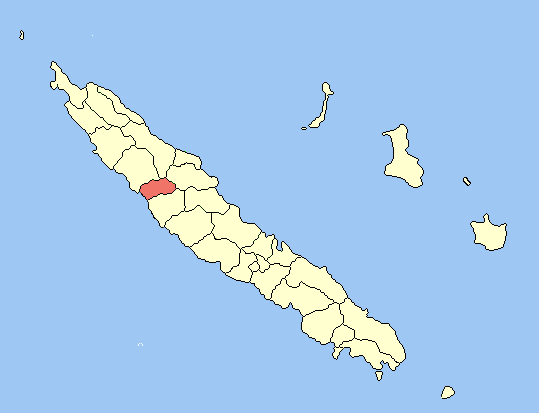 Created map myself.